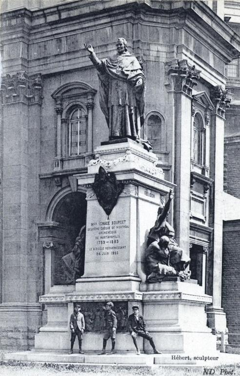 Stone statue of Ignace Bourget, Bishop of Montreal, sculpted by Louis-Philippe Hébert in 1903 and located at Mary, Queen of the World Cathedral, in Montreal.